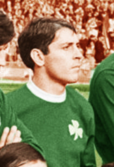 Fragiskos Sourpis, Panathinaikos - Ajax Wembley, 1971